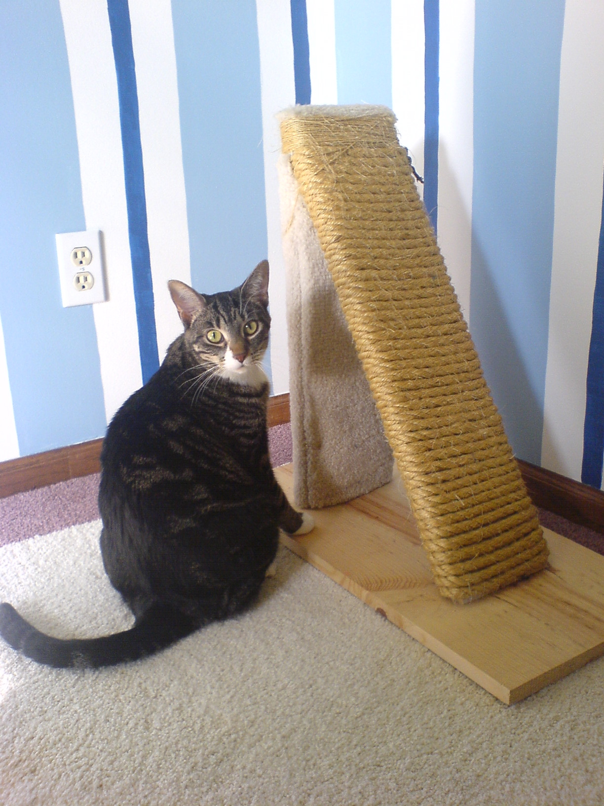 Homemade inclined scratch post.